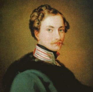 Prince Alexander Ivanovich Baryatinsky.